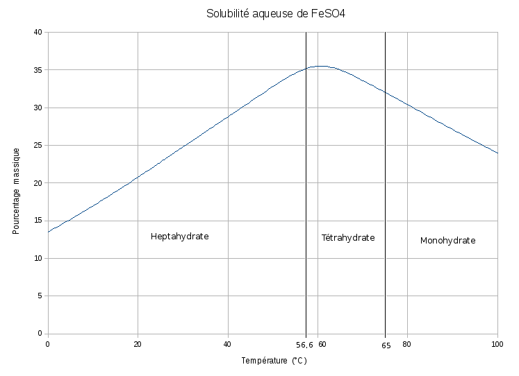 Solubilité aqueuse du sulfate ferreux.